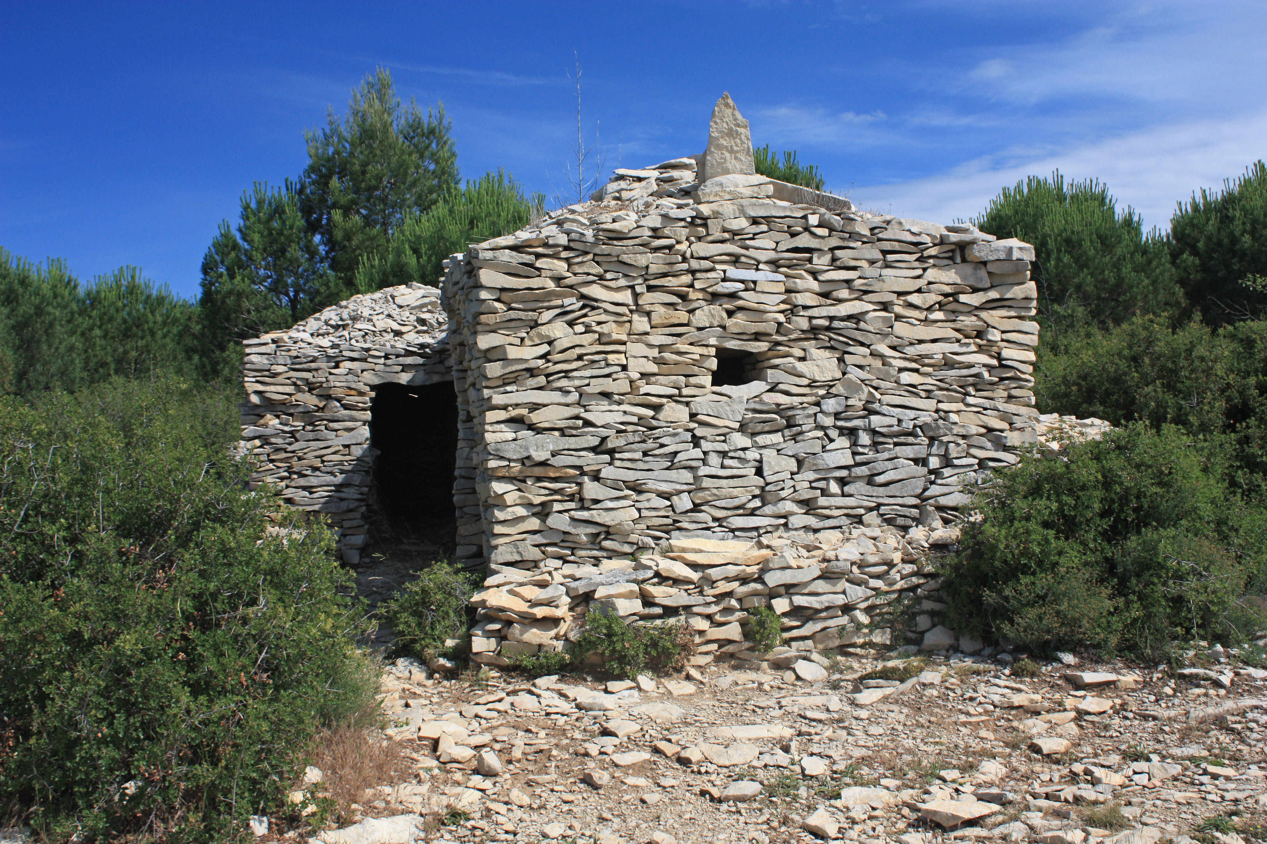 This "capitelle" in three parts sheltered the herd when the Mistral was blowing. The constructional technique made it difficult to erect large-scale edifices.